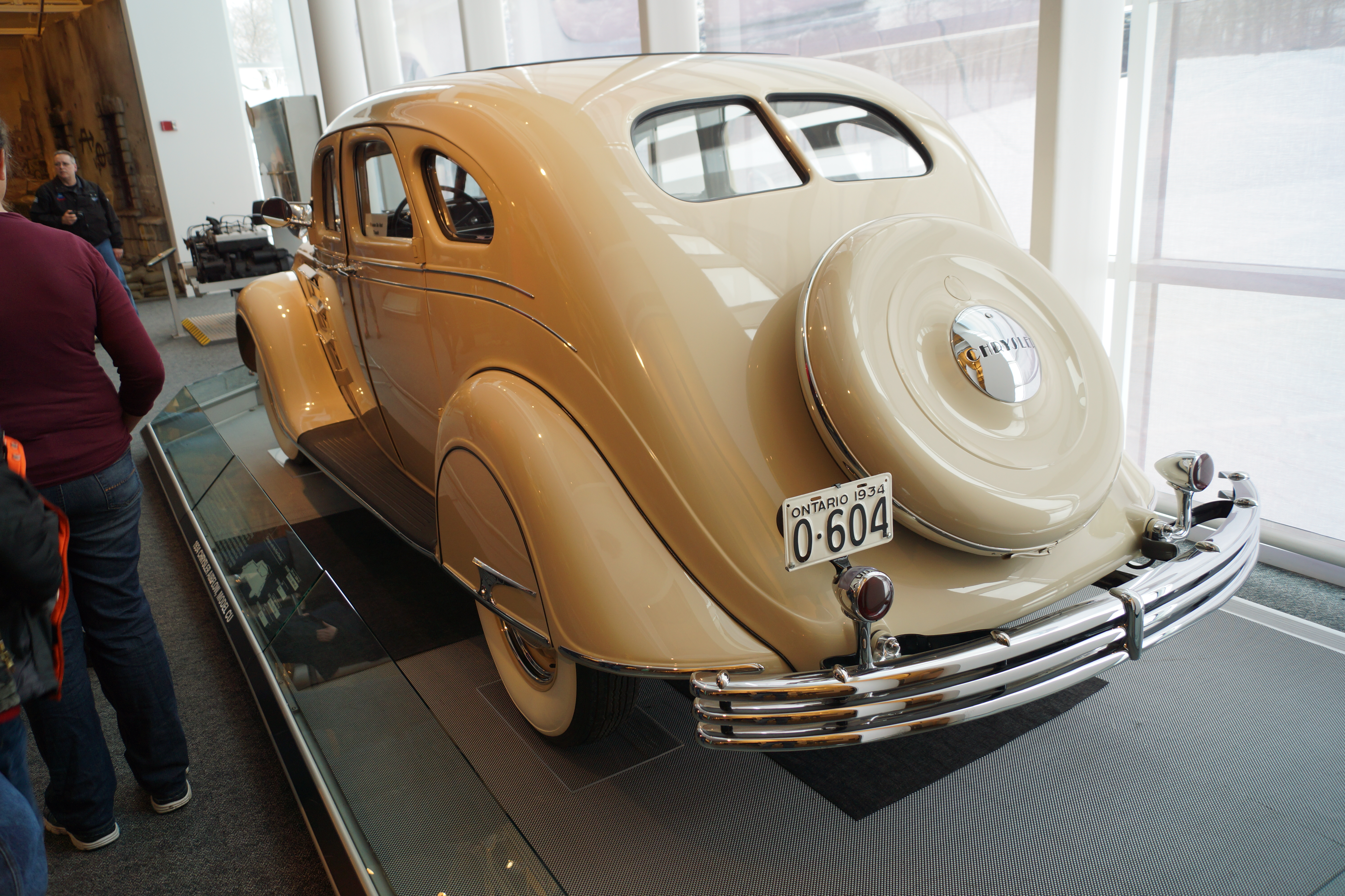 Click here for more car pictures at my Flickr site. Or here for my Car Crazy Tumblr site. Back on November 4th, Hemming's Blog posted an article about the closing of the Walter P. Chrysler Museum . I had missed a couple other opportunities with the WPC Club and others to get into the museum, after it had closed to the public. I did not want to regret missing this last chance to see all of the vehicles before being spread out to other facilities. I trekked from Western Minnesota to Eastern Michigan during Winter Storm Decima. I missed the worst parts of the storm, but still had to endure the aftermath winds, sub zero temperatures and a lake effect snow storm. The trip was difficult, but well worth it. I got to see several Chrysler Corporation concept and show cars that I had only seen pictures of before. There were several clever interactive displays demonstrating various innovations over the years. Since it was the last chance, I duplicated several shots using different camera settings to see what produced better results. I wish I had invested in a strobe light diffuser for all of those indoor pictures. I have not had much experience or success in the past with indoor car images.